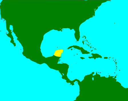 Made to match with Yucatan_peninsula_250m.jpg